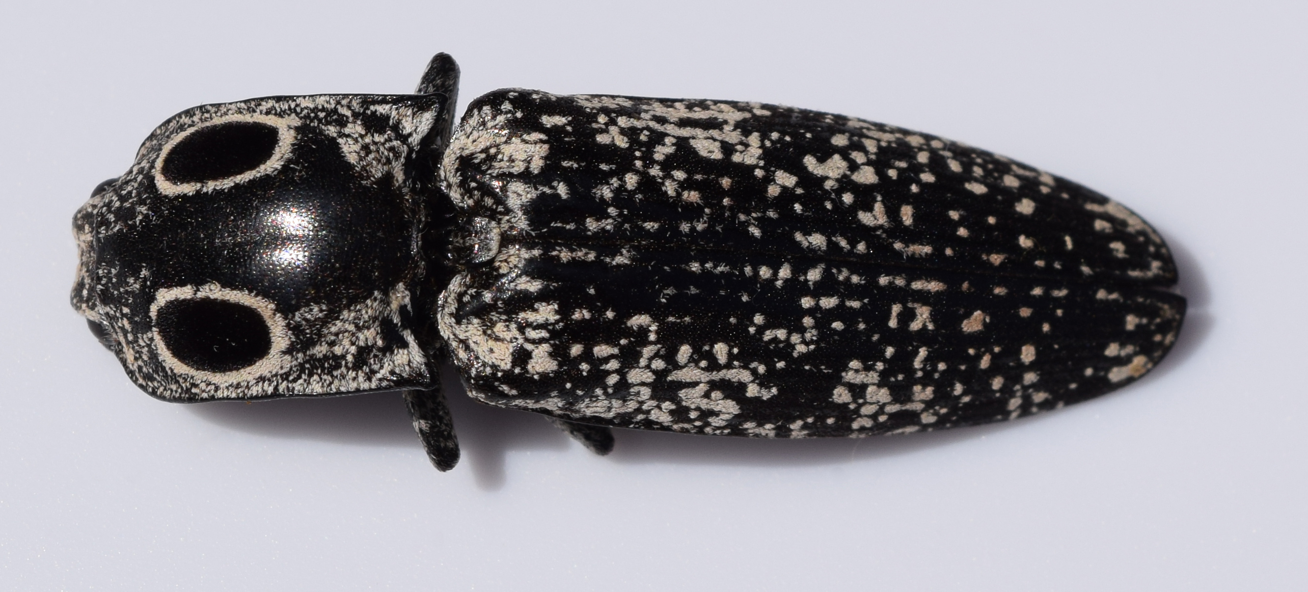 Alaus oculatus (eastern-eyed click beetle) at the University of Mississippi Field Station